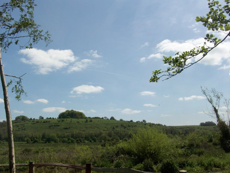 View of St Catherine's Hill from the water meadows